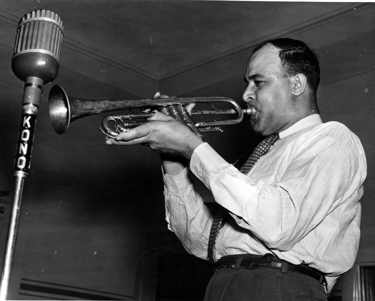 Fon Albert Playing his horn